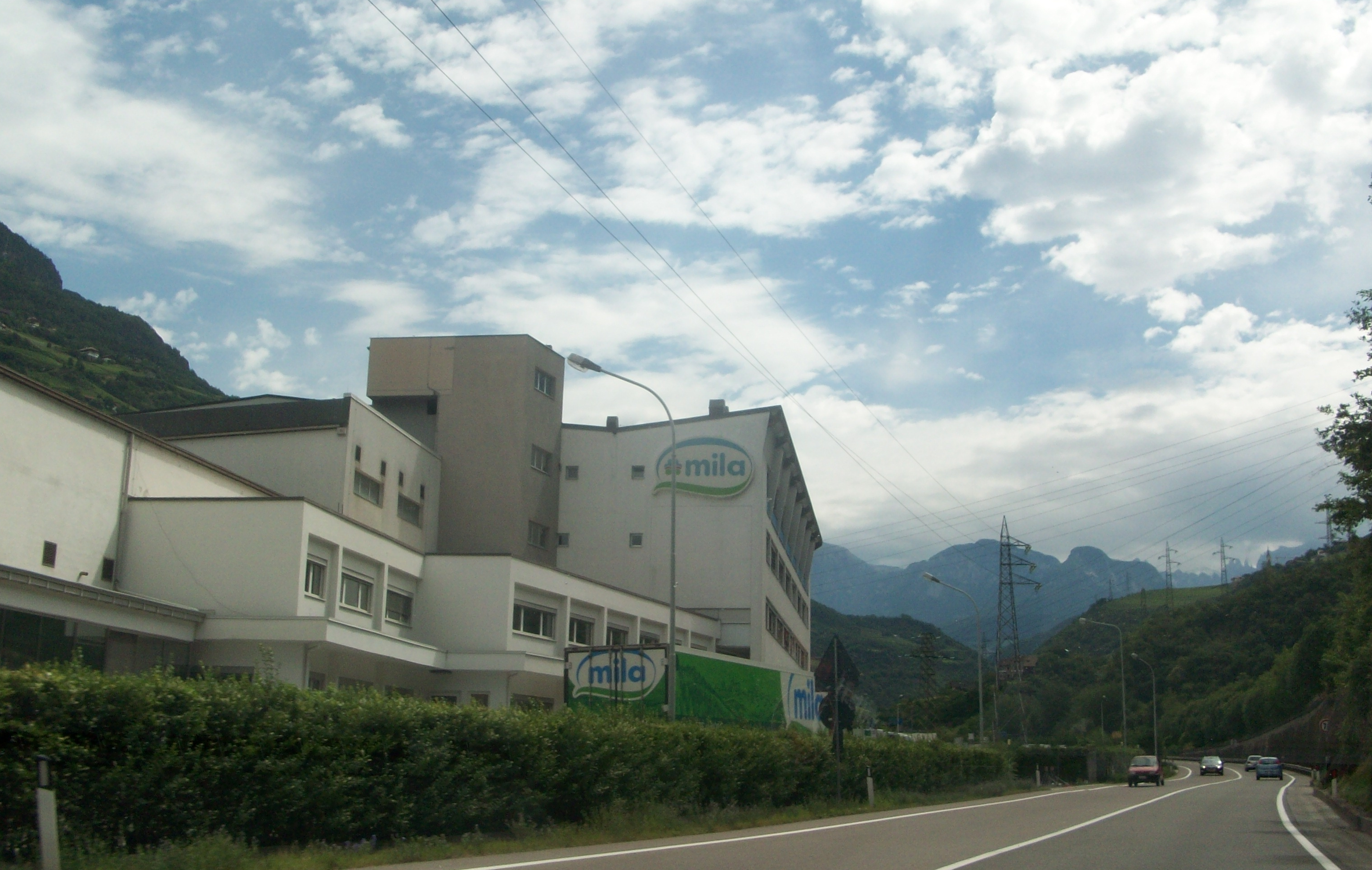 The headquarters and production-house of Mila in Bolzano.